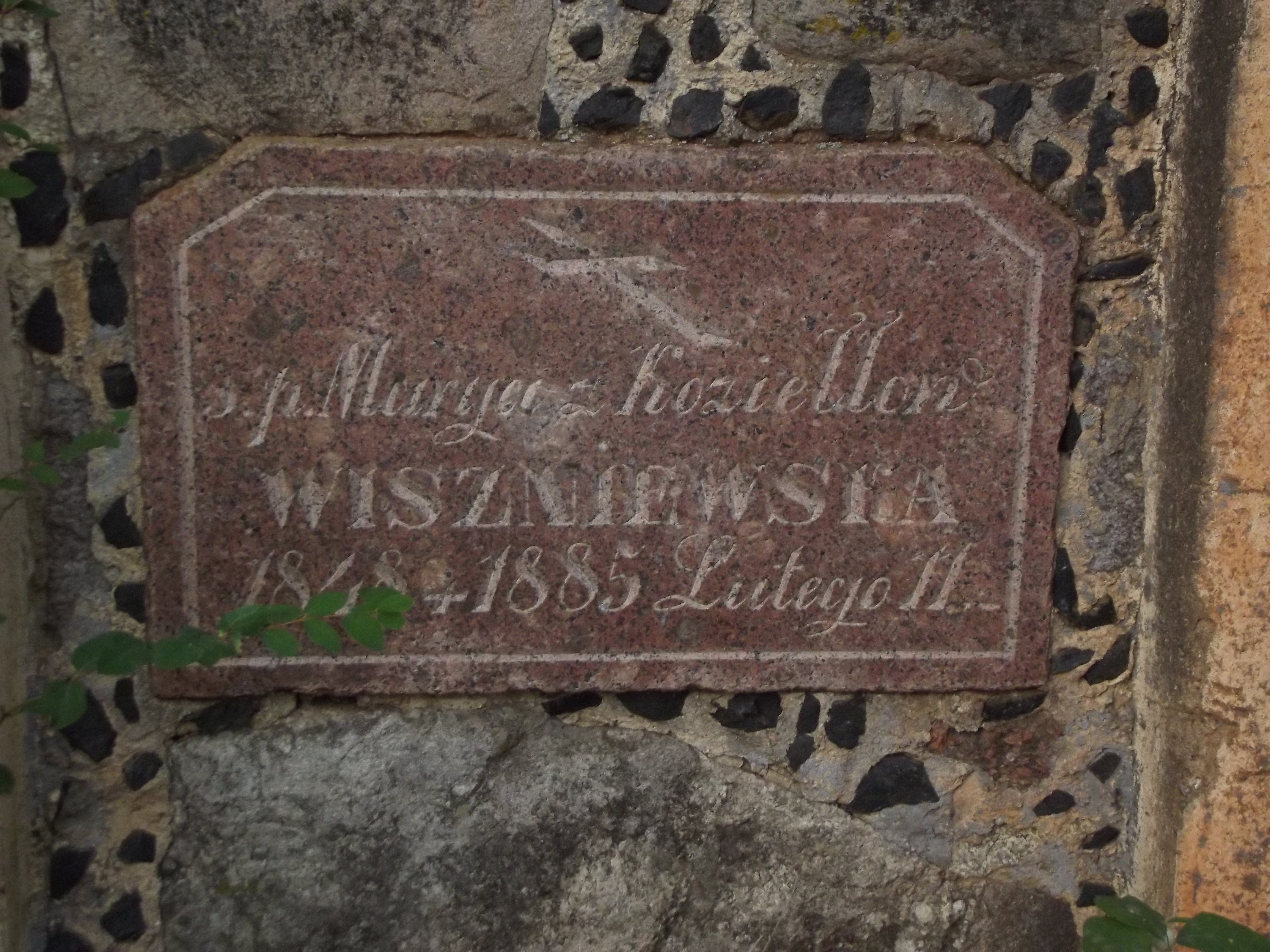 Teiki village, Minsk Raion. Vishnevsky`s burial-vault.